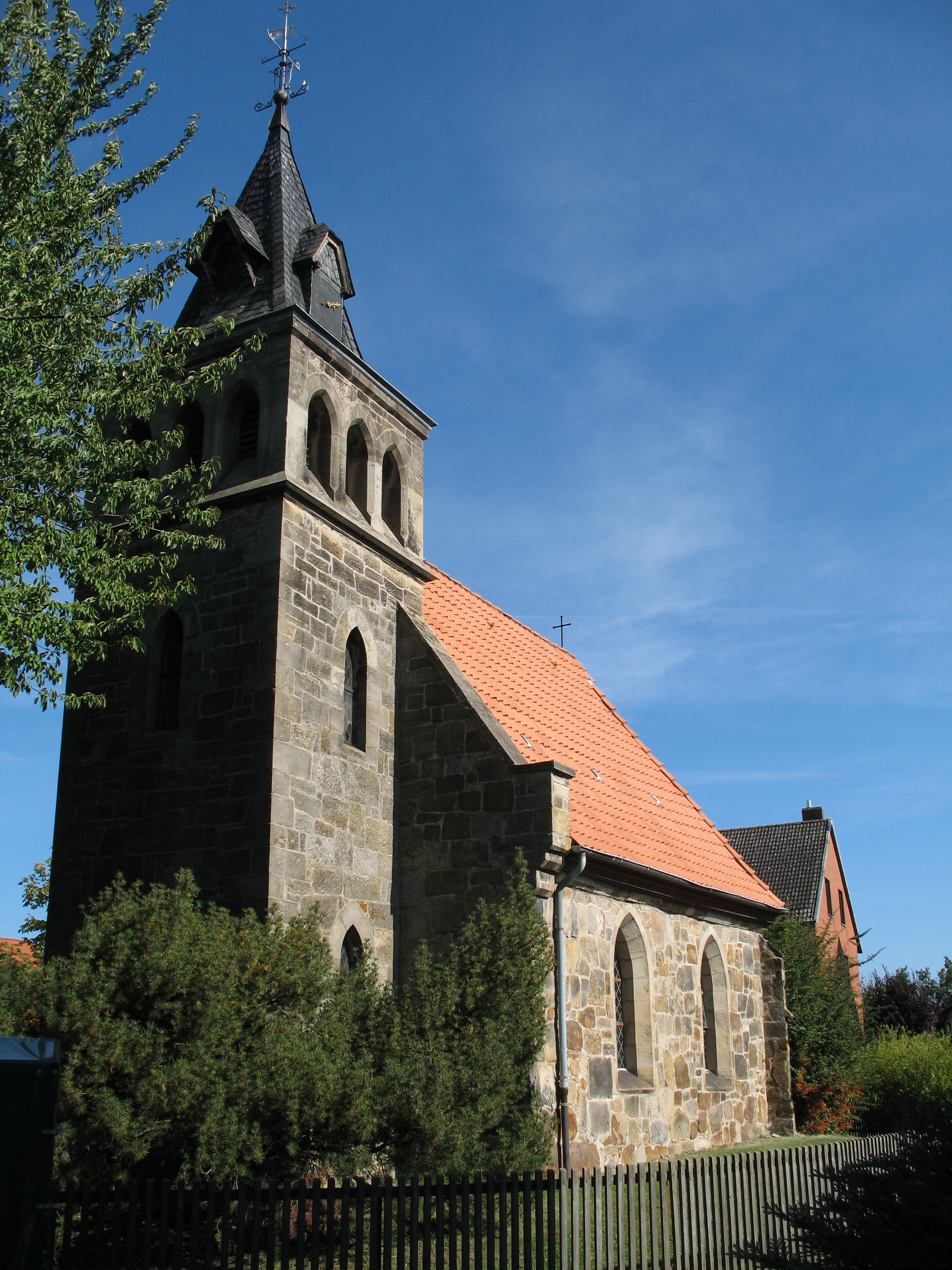 Chapel in Sorsum, Lower Saxony, Germany